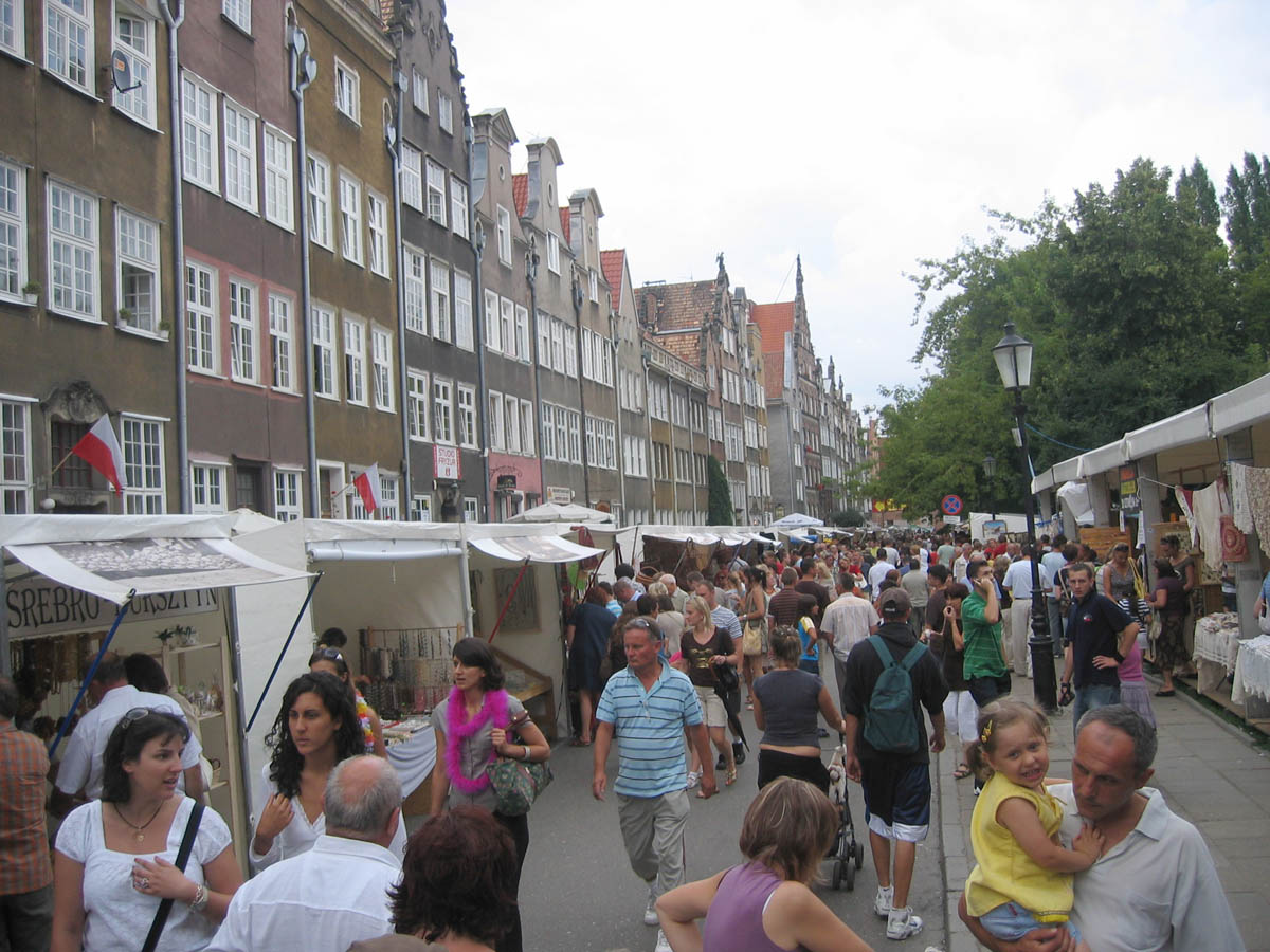 Gdańsk, Poland, street ul. Świętego Ducha (lower part) during St. Dominik Fair in 2008.